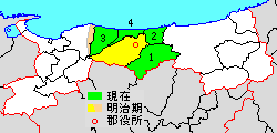 Map of Tohaku District in Tottori prefecture, Japan.